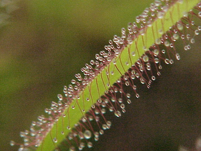 Species: Drosera capensis Family: Droseraceae Image No. 3